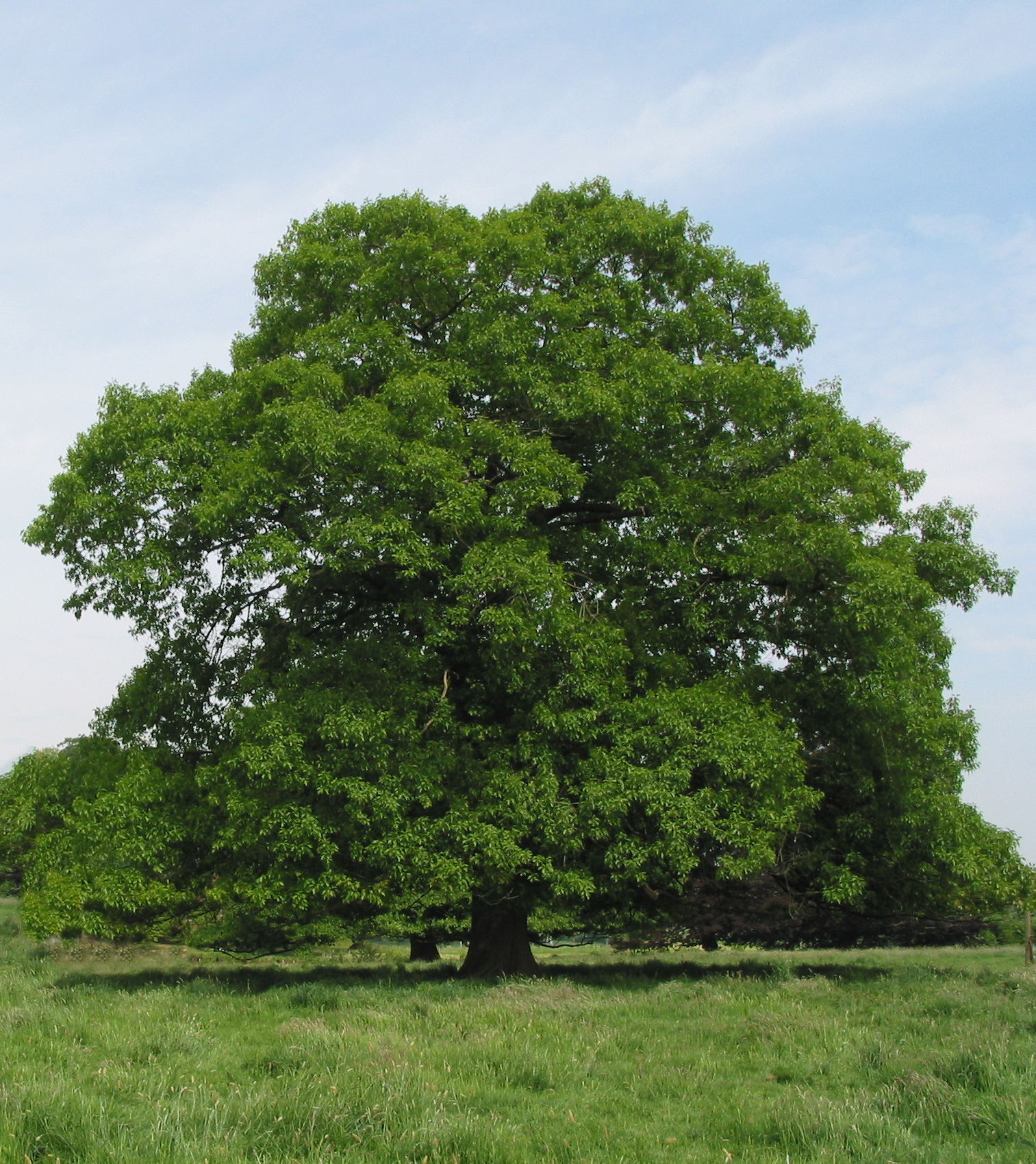 Oak - Château de la Berlière - Houtaing